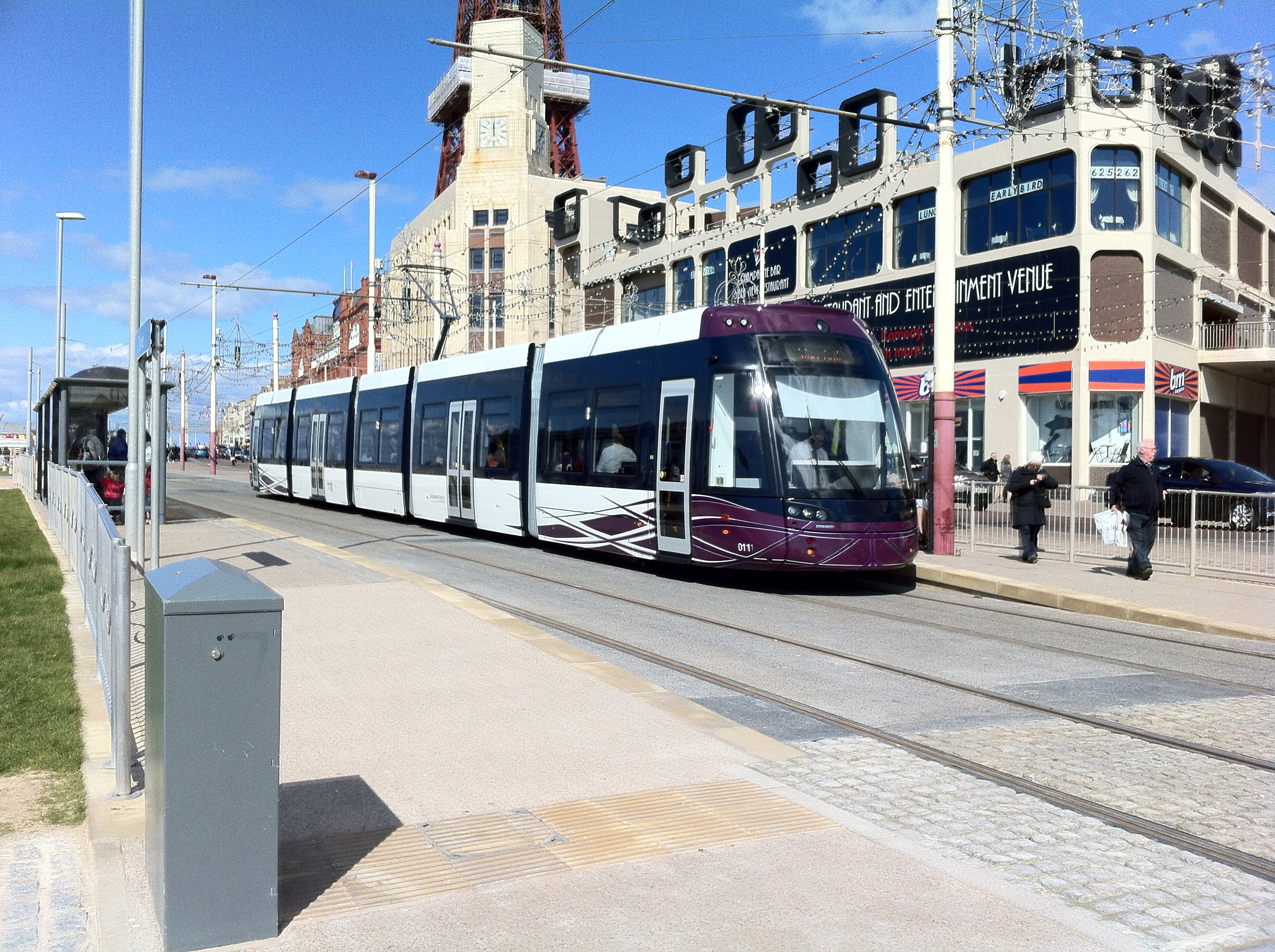 Flexity 2 tram 011 at Tower tram stop, Blackpool Tramway